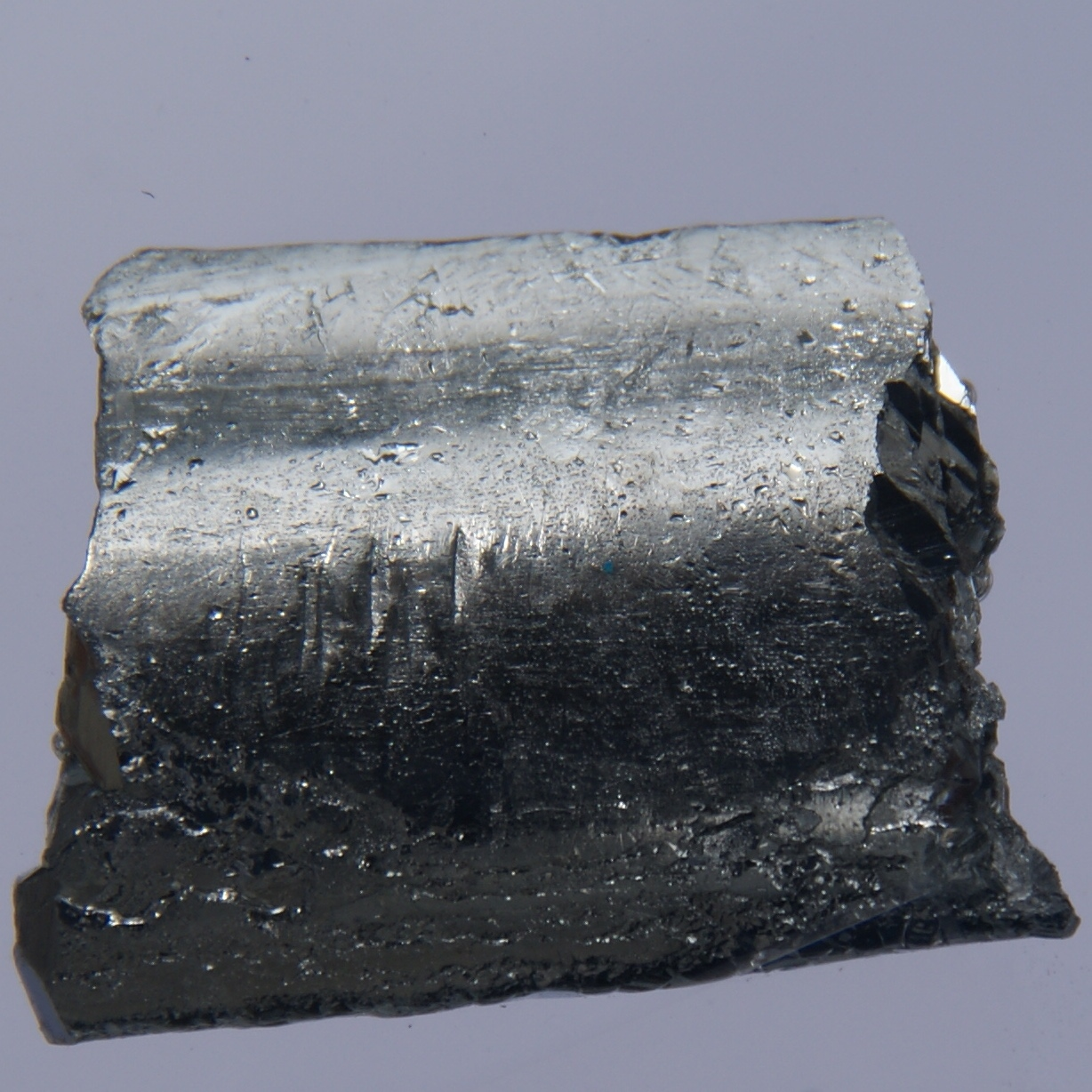 Ultrapure metallic Antimony piece